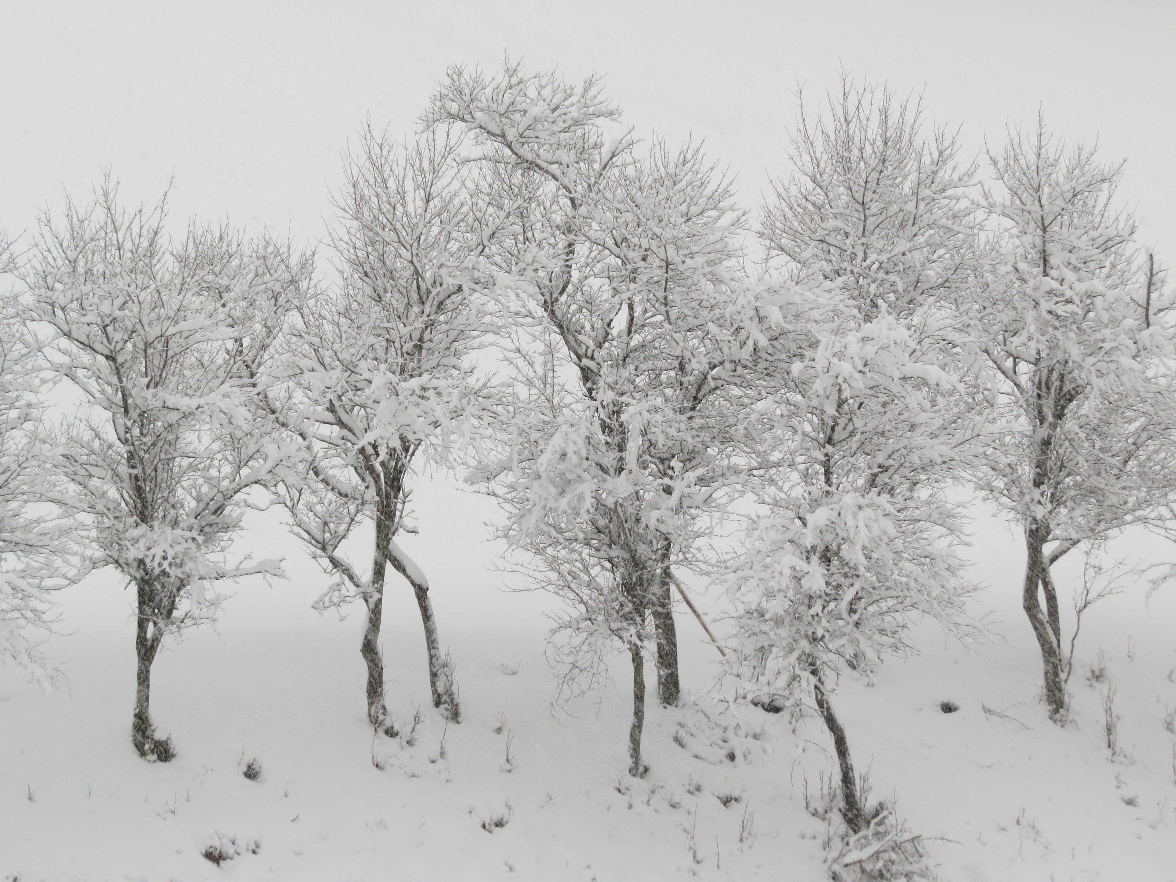 Plum trees in winter at Haltgraben, Frankenfels